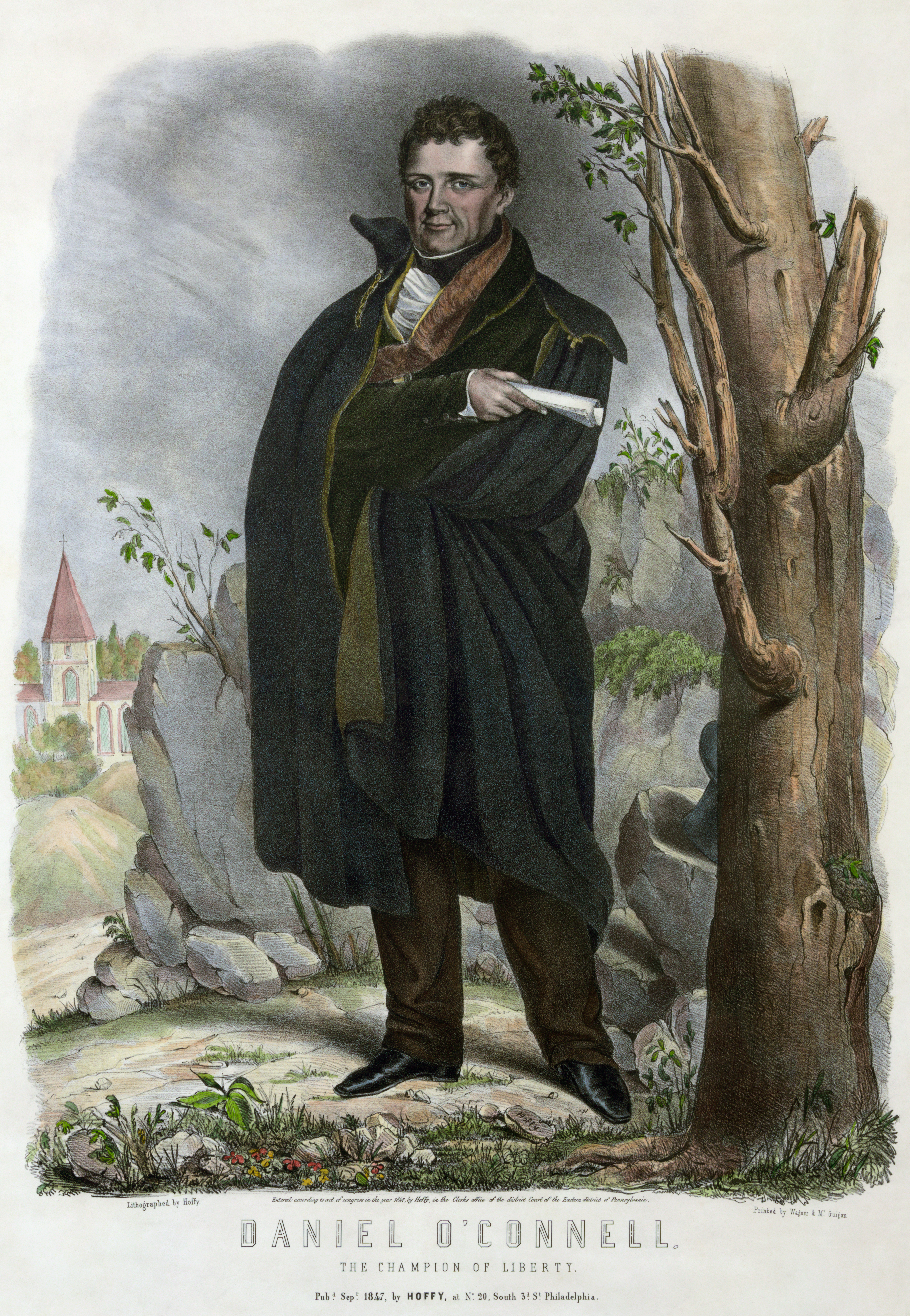 Daniel O'Connell, mid nineteenth century portrait